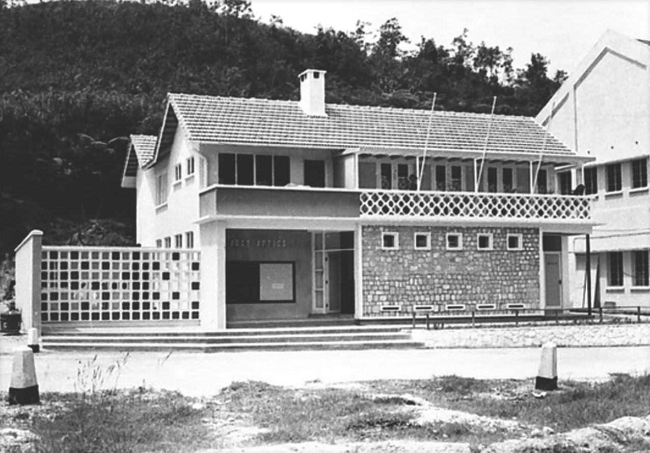 Tanah Rata Post Office, Cameron Highlands, Pahang, West Malaysia (circa. 1930s). Author: See Kok Shan